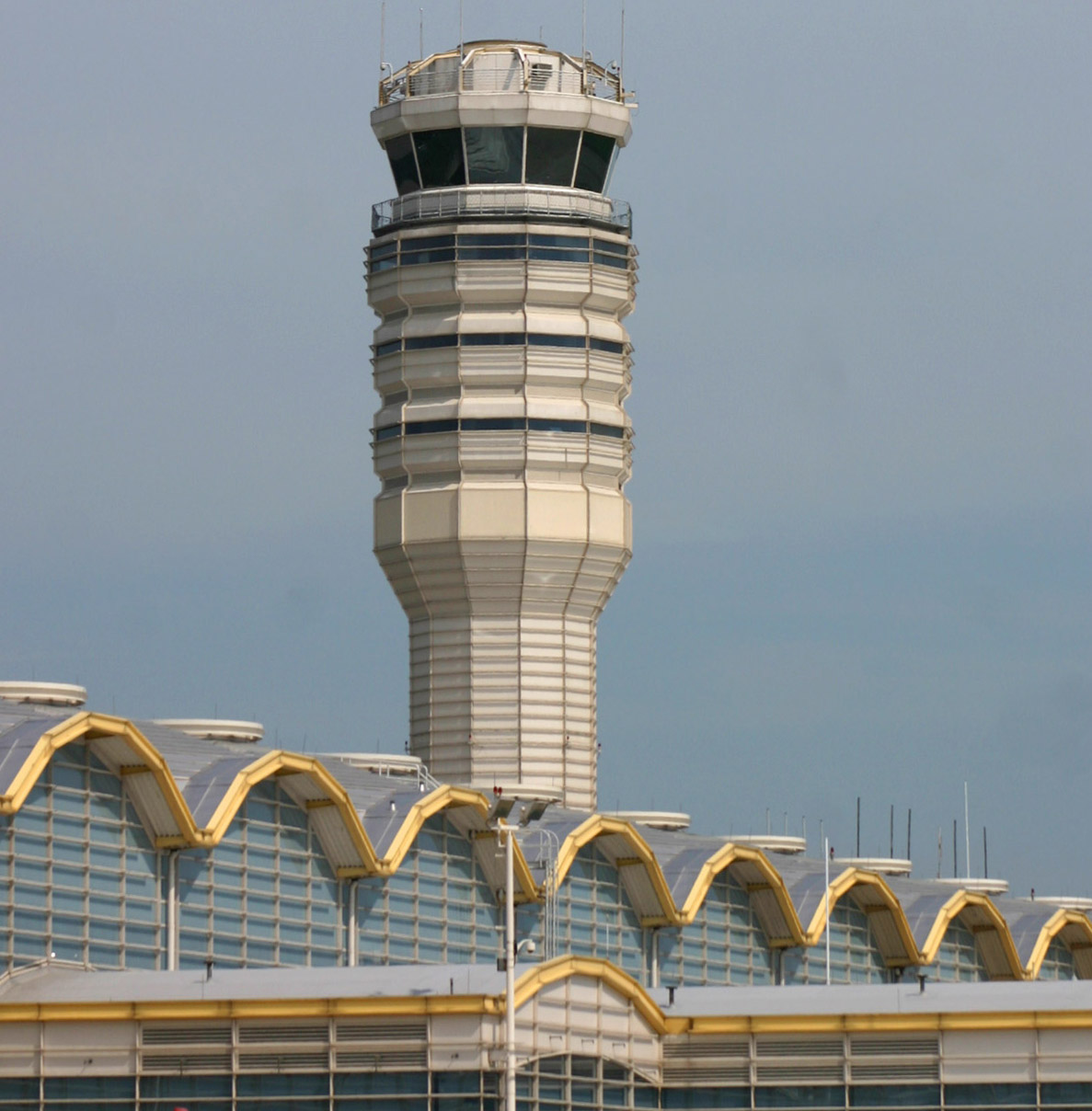 Air Traffic control tower at National Airport